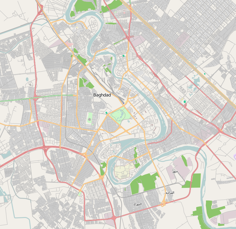 Map of Baghdad Geographic limits of the map: N: 33.4016° S: 33.2289° W: 44.2691° E: 44.4816°